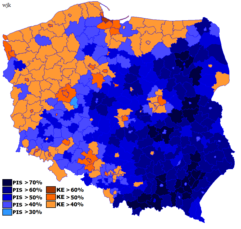 2019 European General Election in Poland